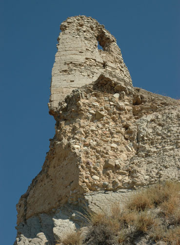 Castelló de Farfanya castle. La Noguera, Catalonia, Spain